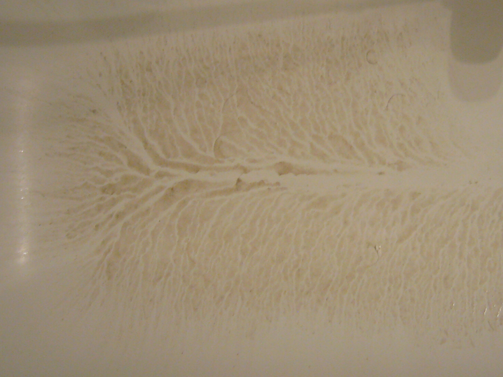 Sedimentation of suspended matter in the bath tub after a bath